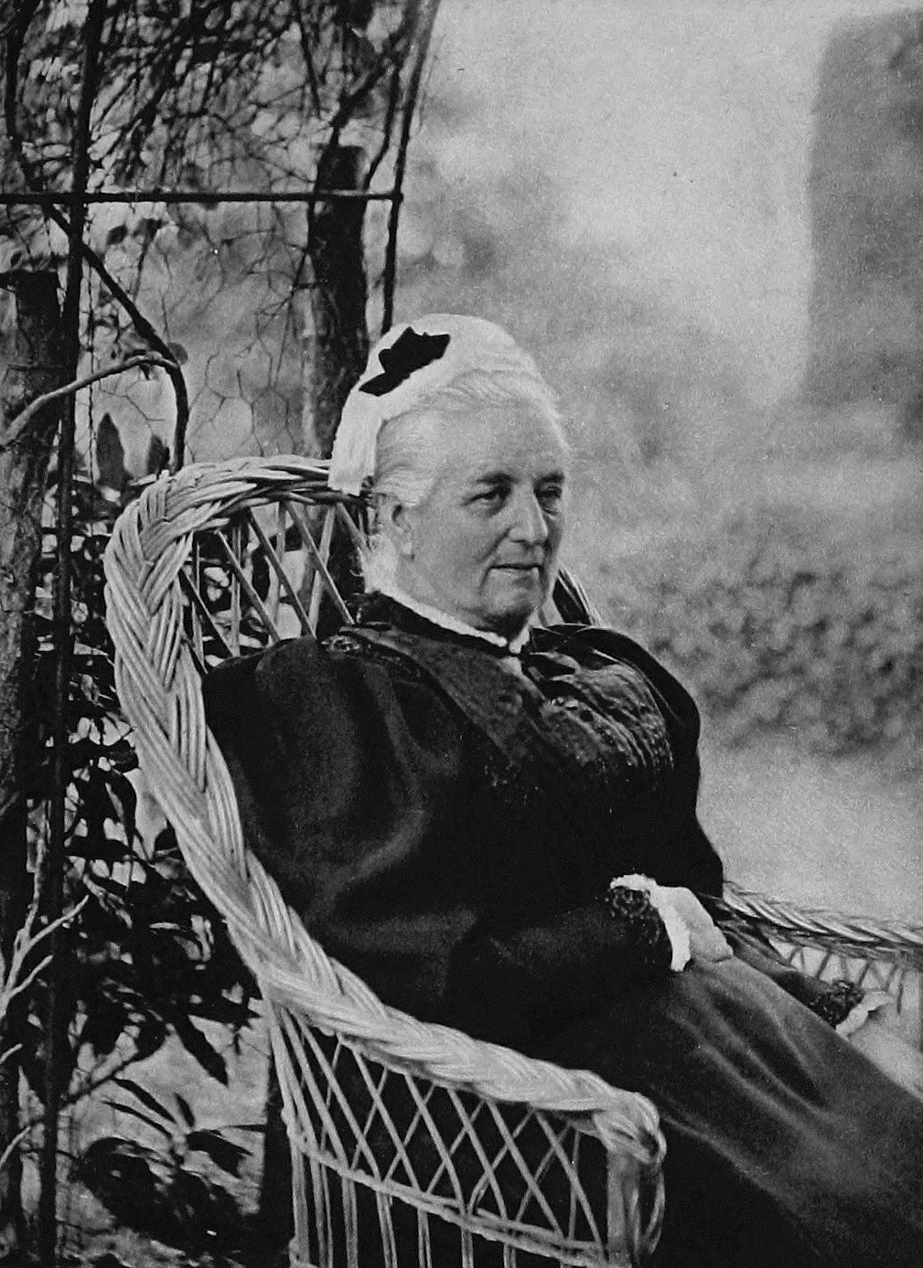 Charlotte Mary Yonge at 75